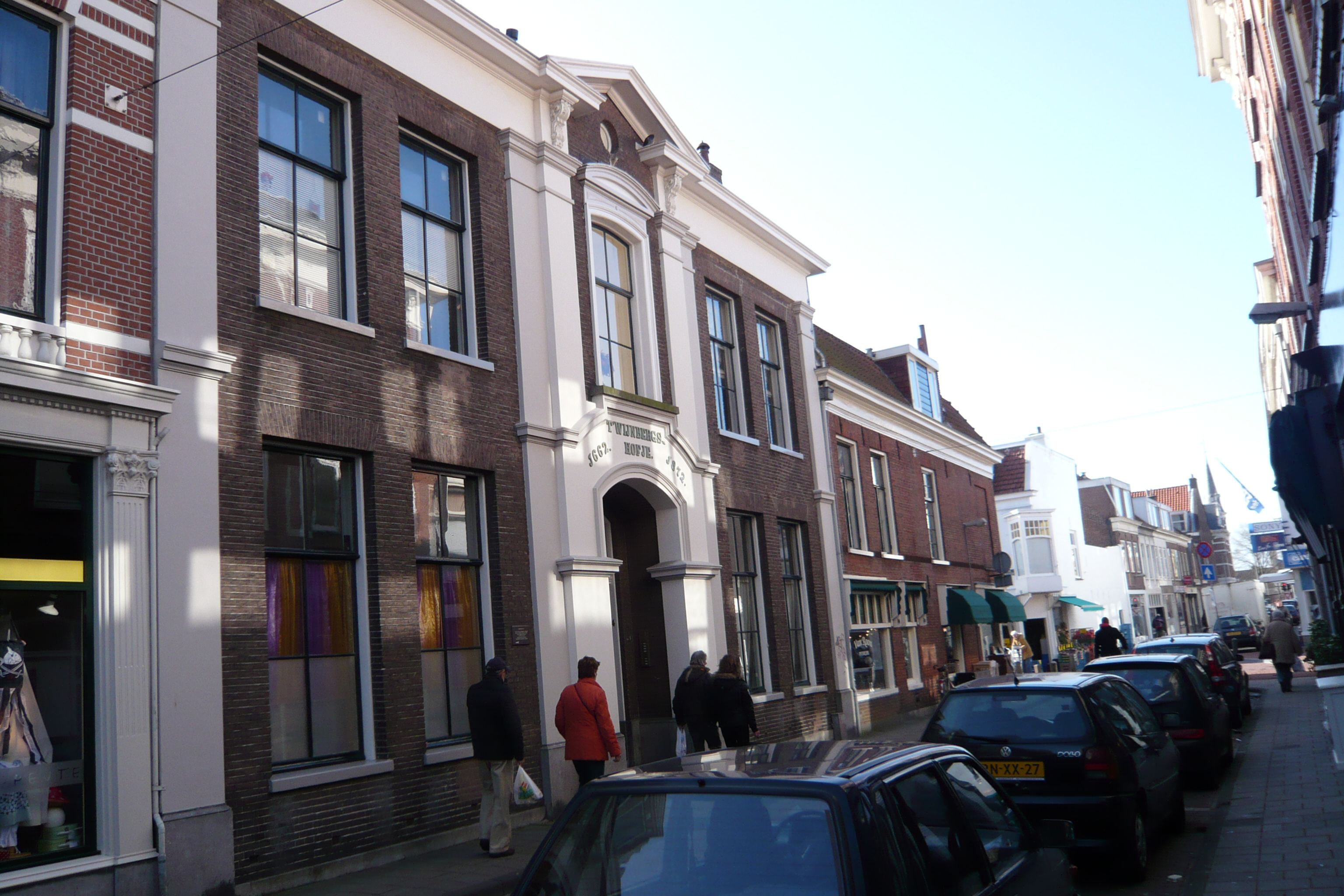 Front of Wijnbergshofje in the Barrevoetstraat in Haarlem, the Netherlands. This hofje was founded in 1662 by the Mennonites. It was rebuilt in 1872. The front door leads the visitor through a short hallway to a garden. The house in the rear of the garden is the oldest building in the complex.